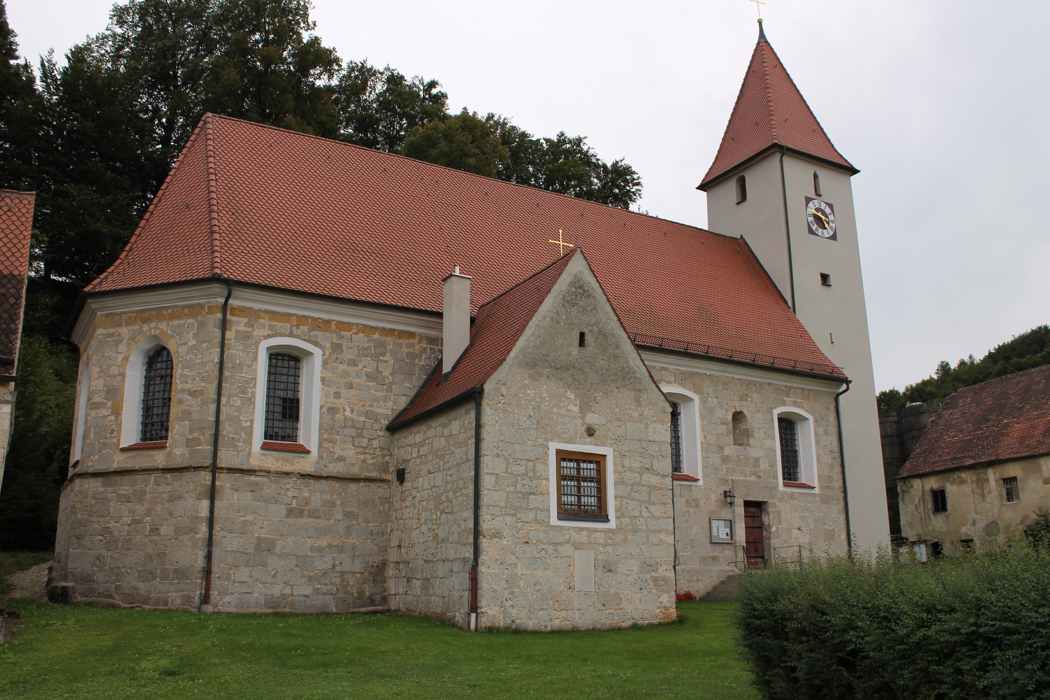 This is a photograph of an architectural monument.